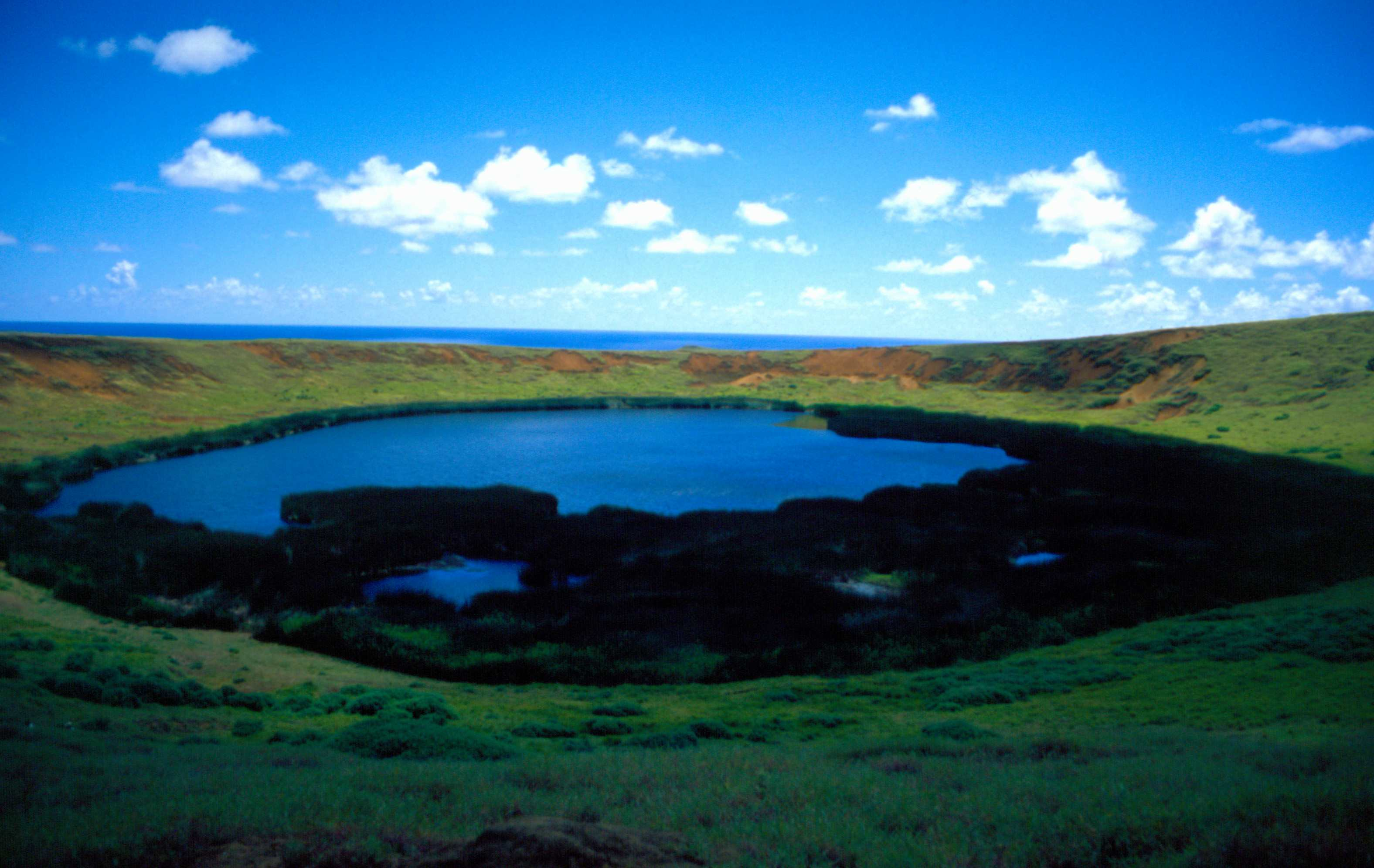 Crater lake of Rano Raraku volcano, Easter Island